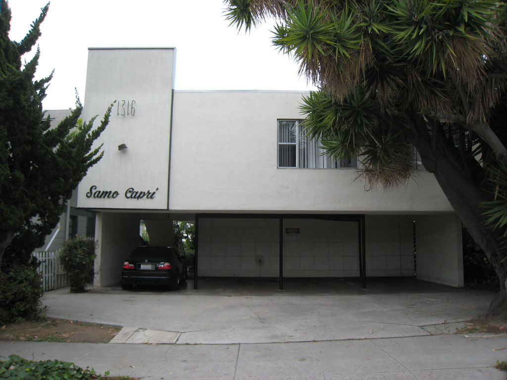 Example of "dingbat" apartment facade.